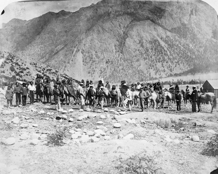 St'at'imc (Lillooet) Nation, 1865